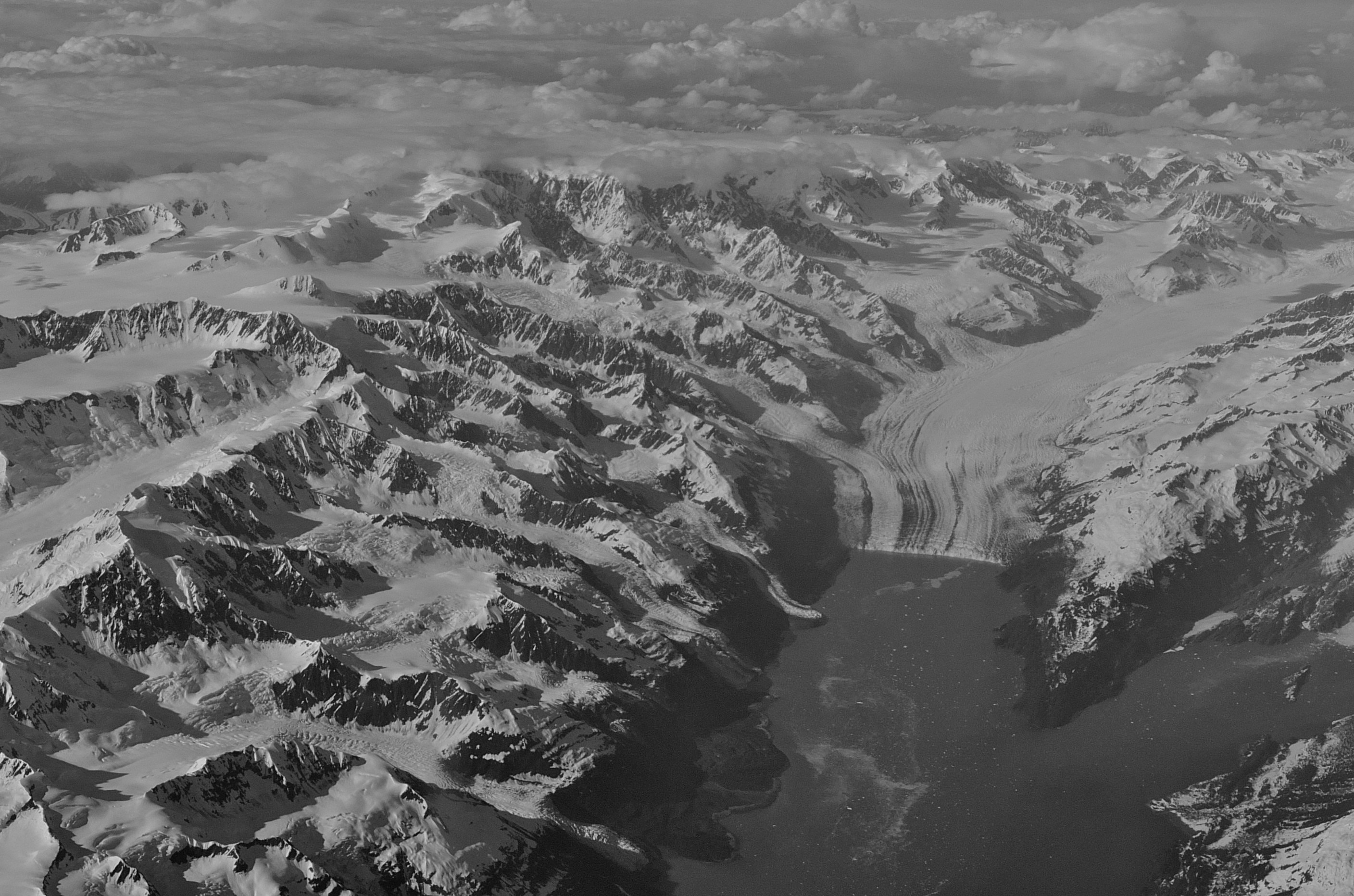 Chugach Mountains/College Inlet